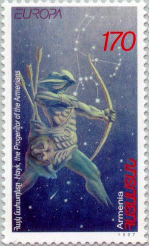 Hayk Nahapet, superimposed on Hayk constellation (Orion constellation)